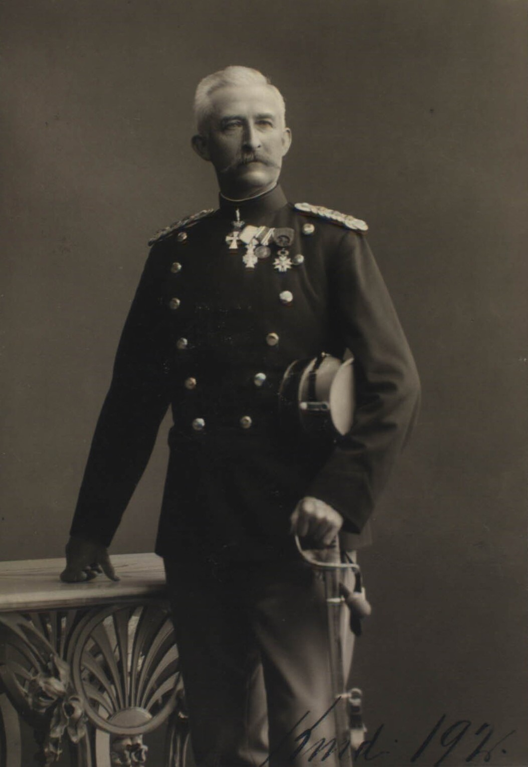 Mauritz Leschly (1841-1930), Danish general